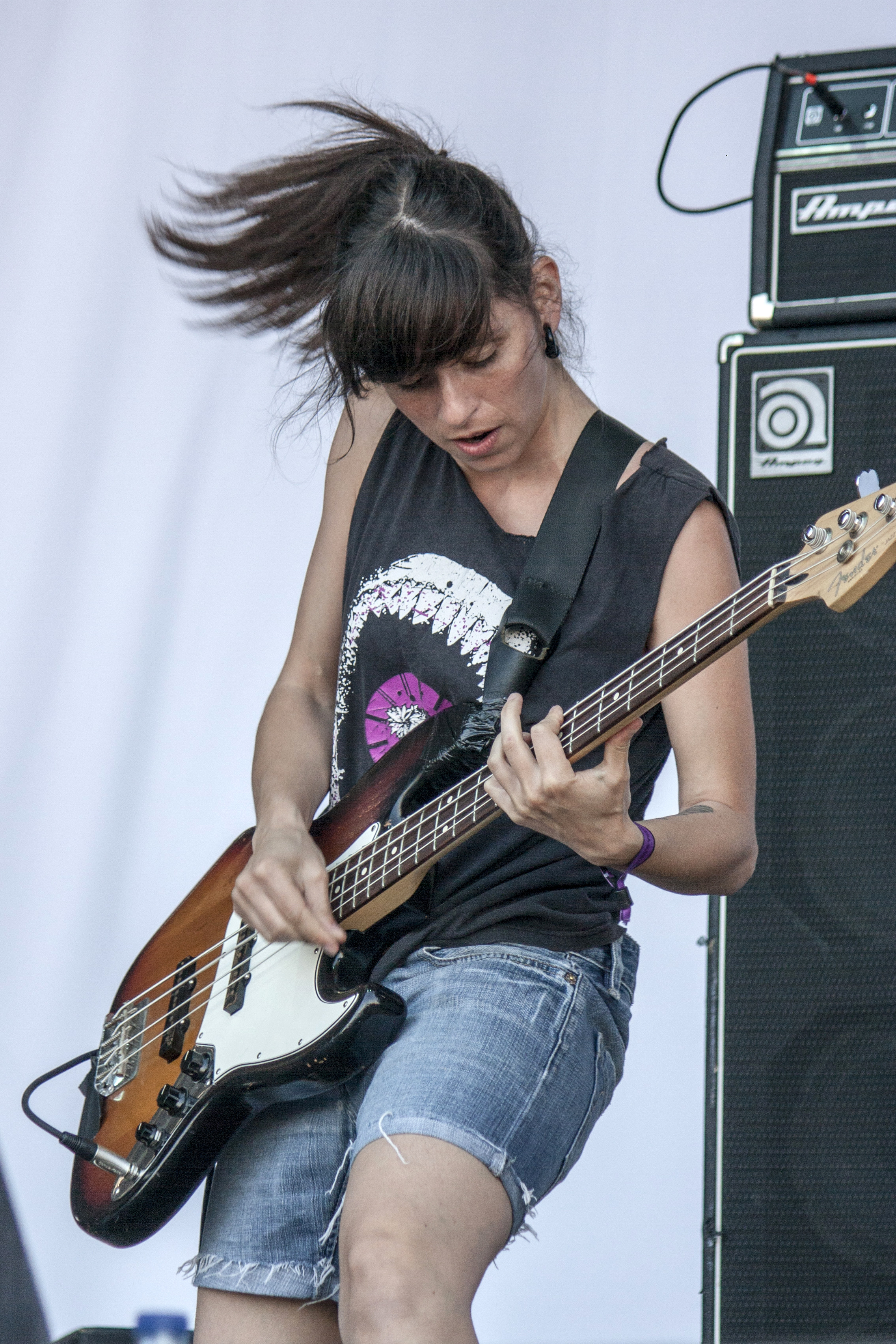 Cláudia Guerreiro of Linda Martini playing at Barcelona, Spain.